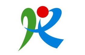 Flag of Kaganino Okayama